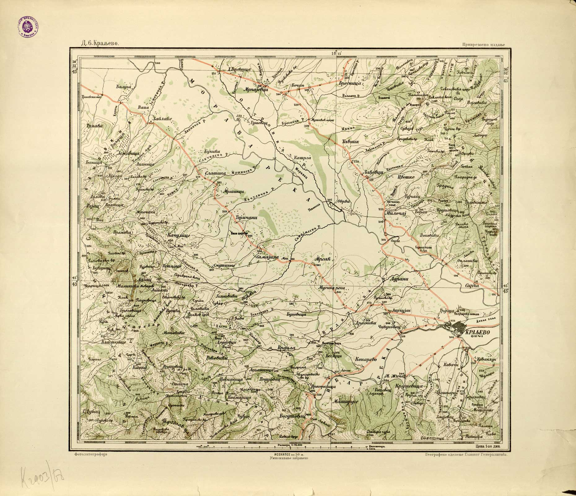 Digital copies of the Đeneralštabna map of Serbia. The map is printed in Belgrade, the 1894th , in 94 sections, with a topographic key and in scale 1:75.000. This is the first special military map of Serbia was published in the country.